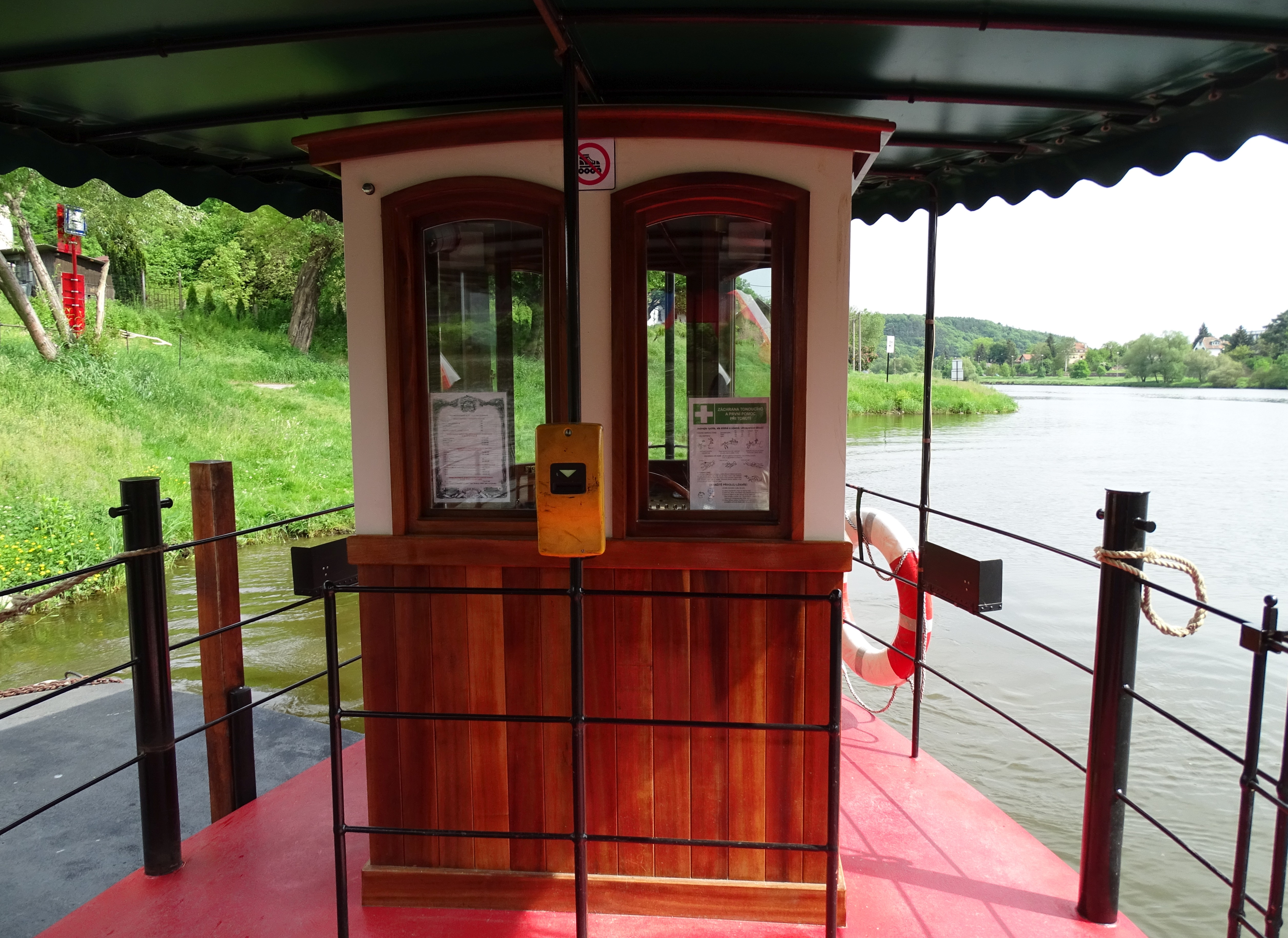 Prague-Bohnice, Czechia, Zámky, a ferry.